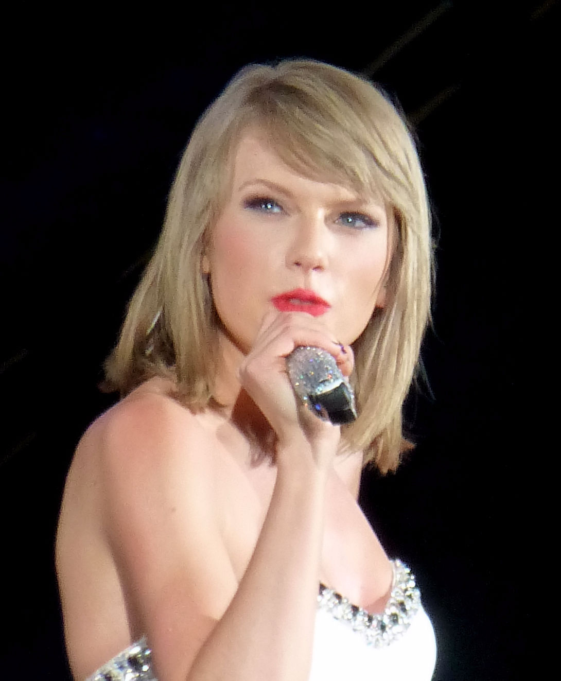 Taylor Swift 1989 Tour at Ford Field in Detroit, 5/30/15